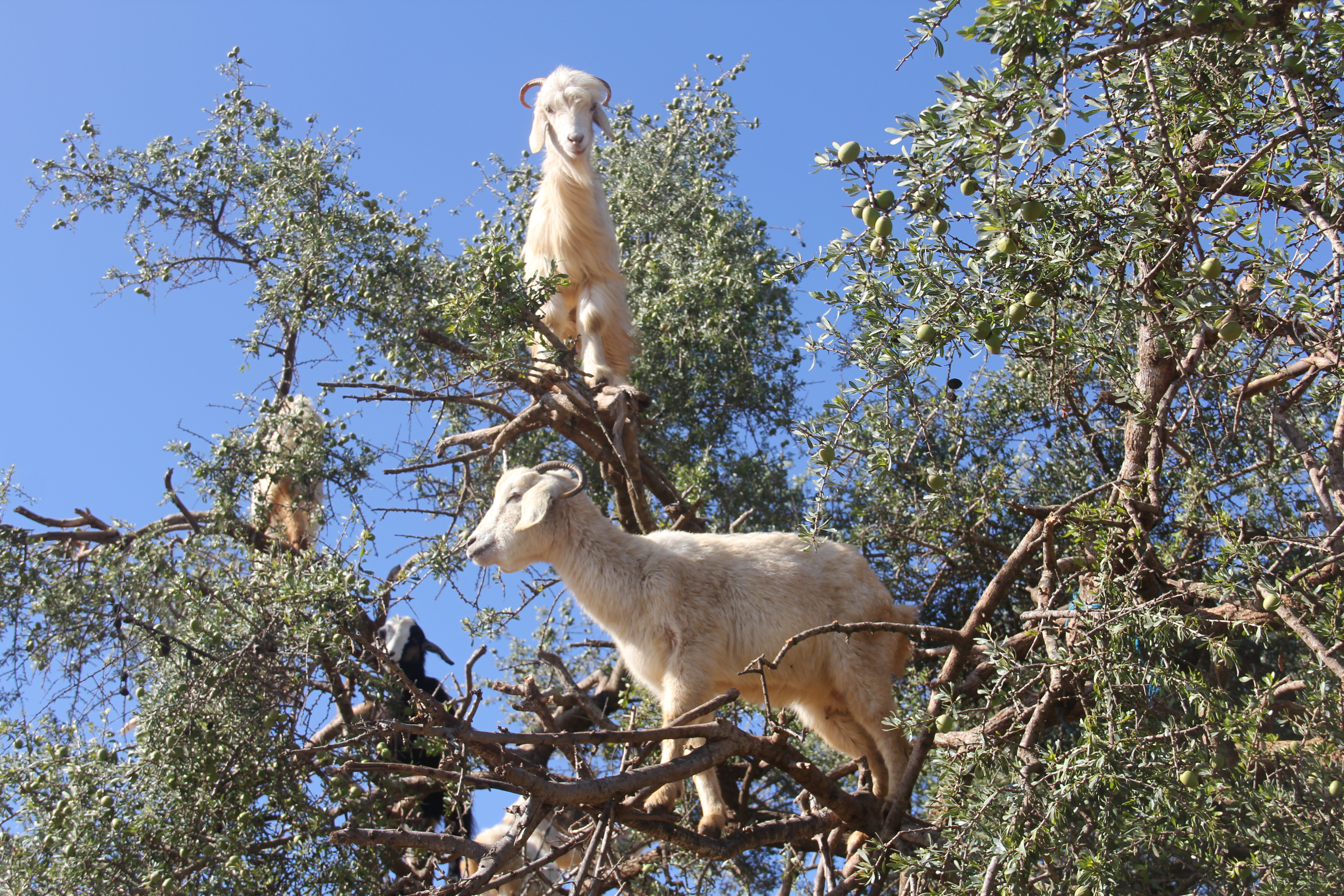 Goats in Argan Nut treen, Morocco seen from the below